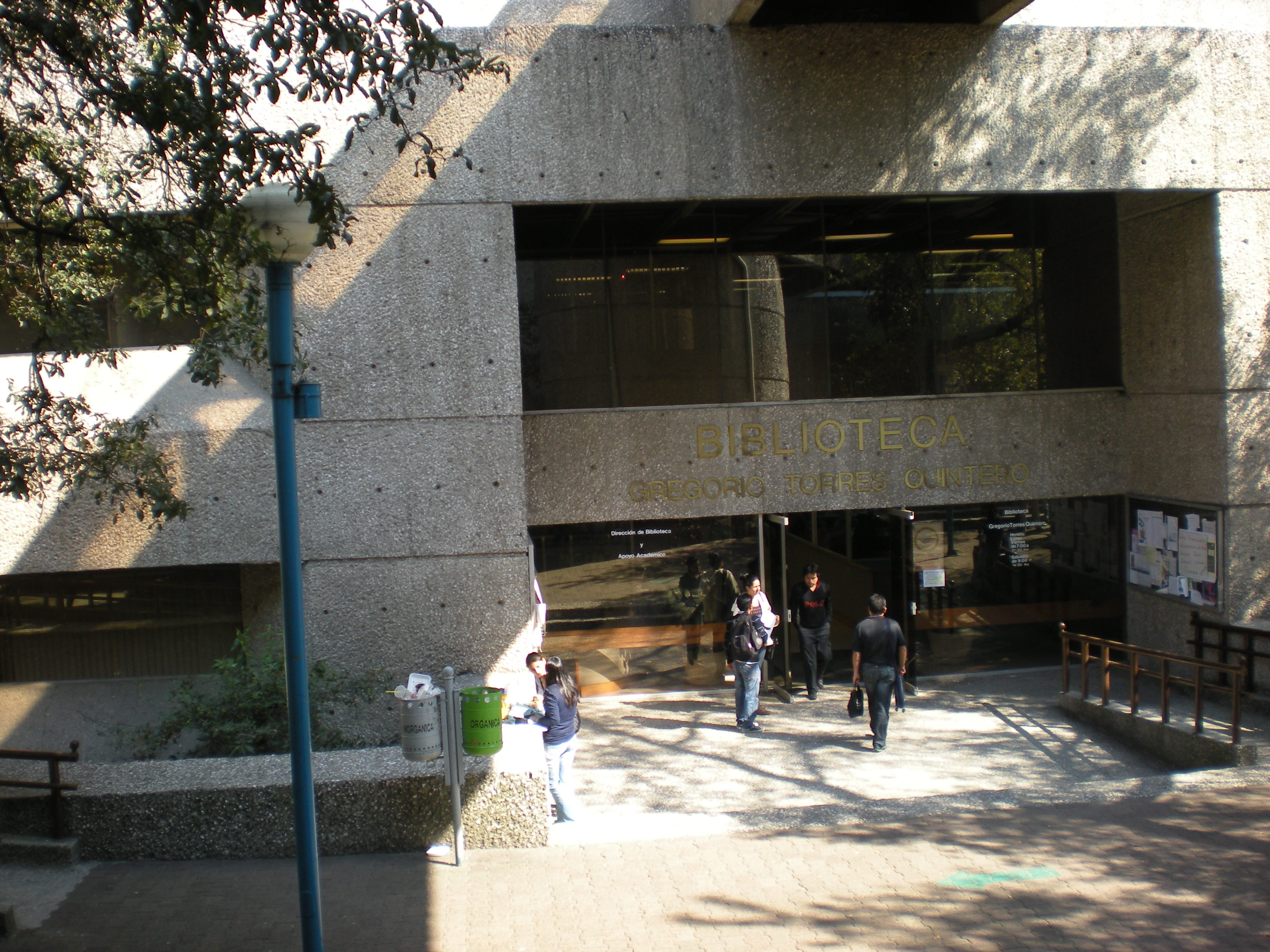 Entrance of library, UPN México